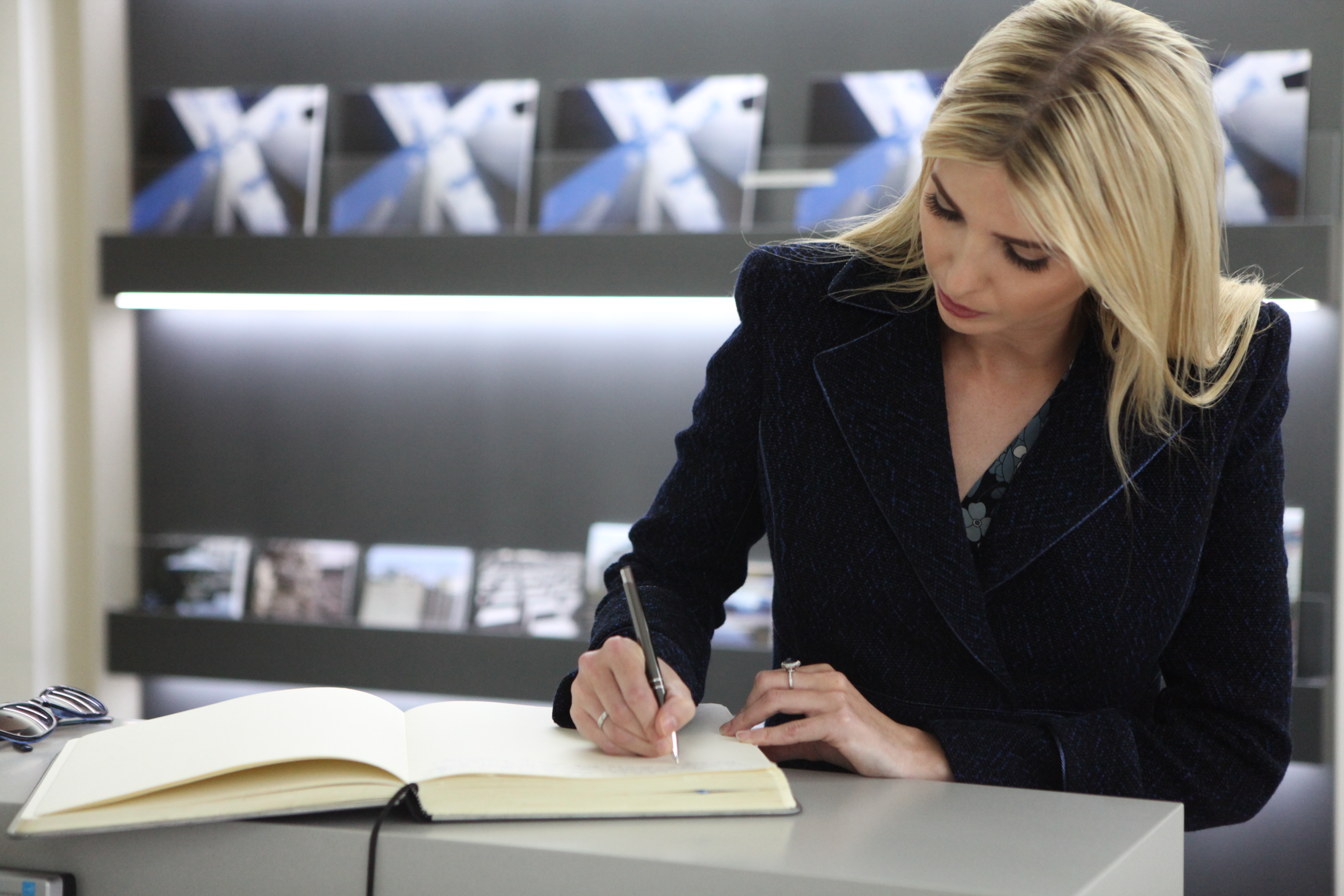 Ivanka Trump signs the Guestbook at the Holocaust Memorial